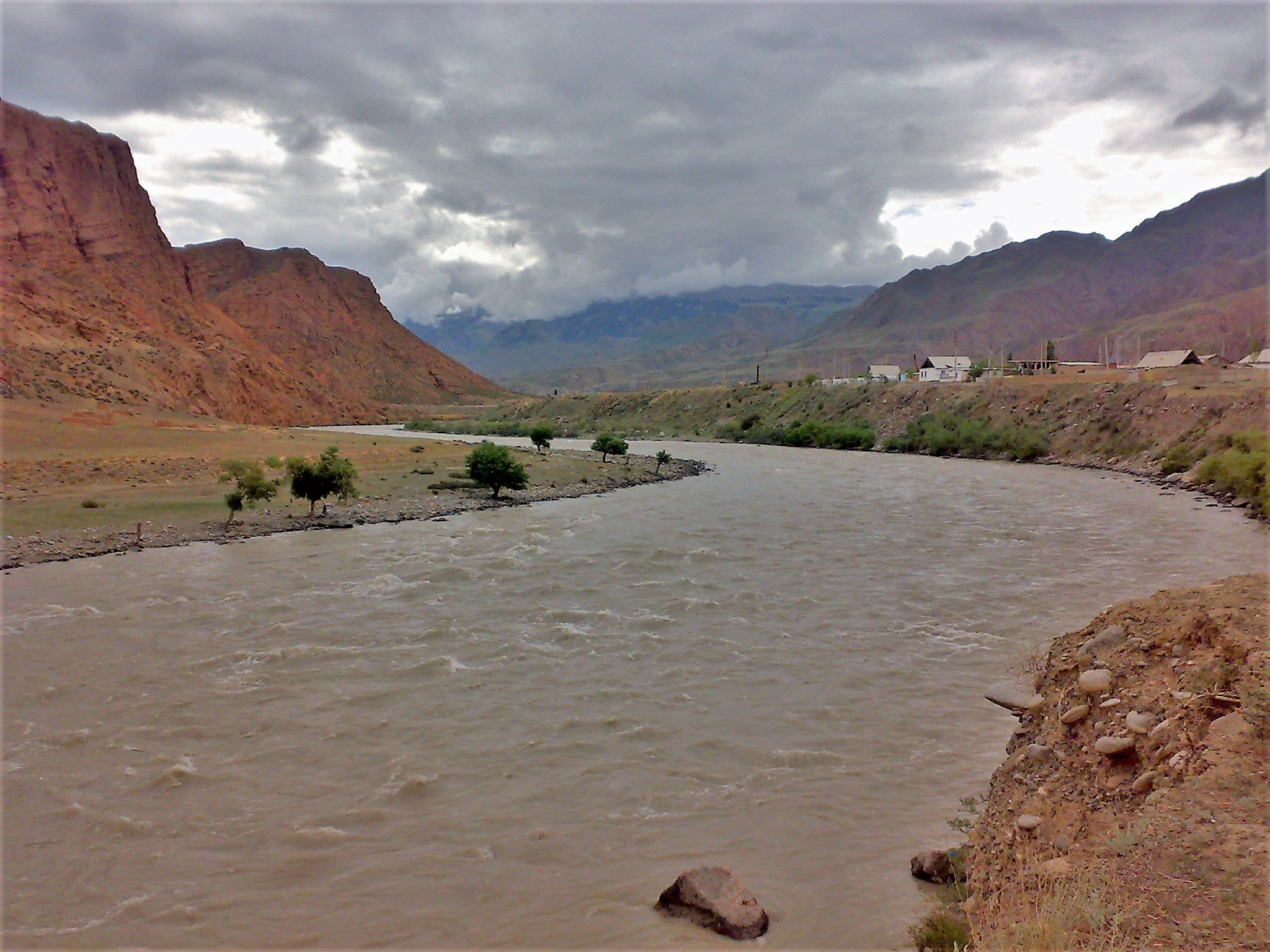 Naryn River (near Naryn town)